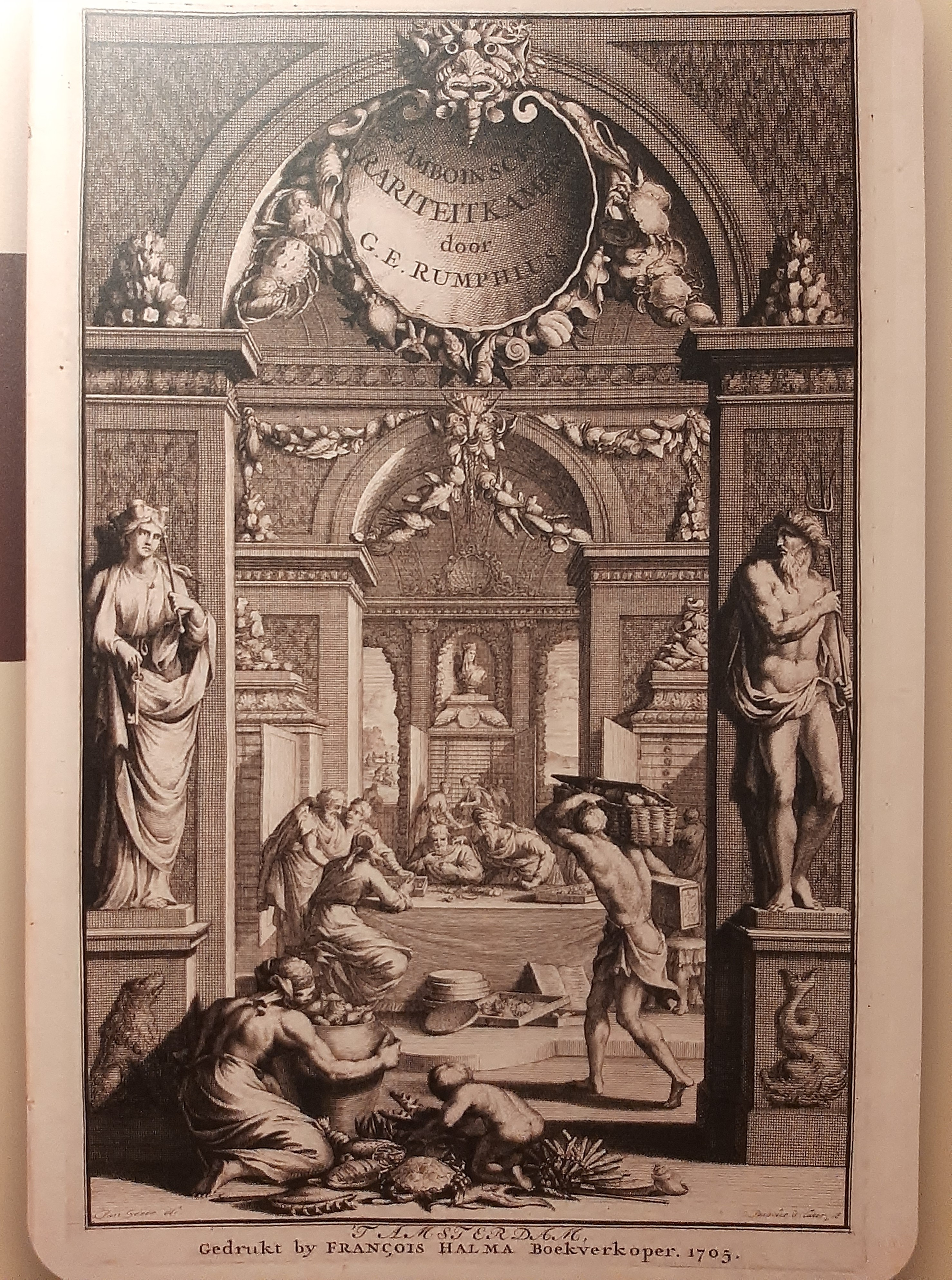 The cover of D’Amboinense Rariteikamer, taken at the Indonesian Museum of Ethnobotany. Published in 1704, tbook consisted mainly of plates of seashells and crabs in Ambon, Moluccas, Indonesia.